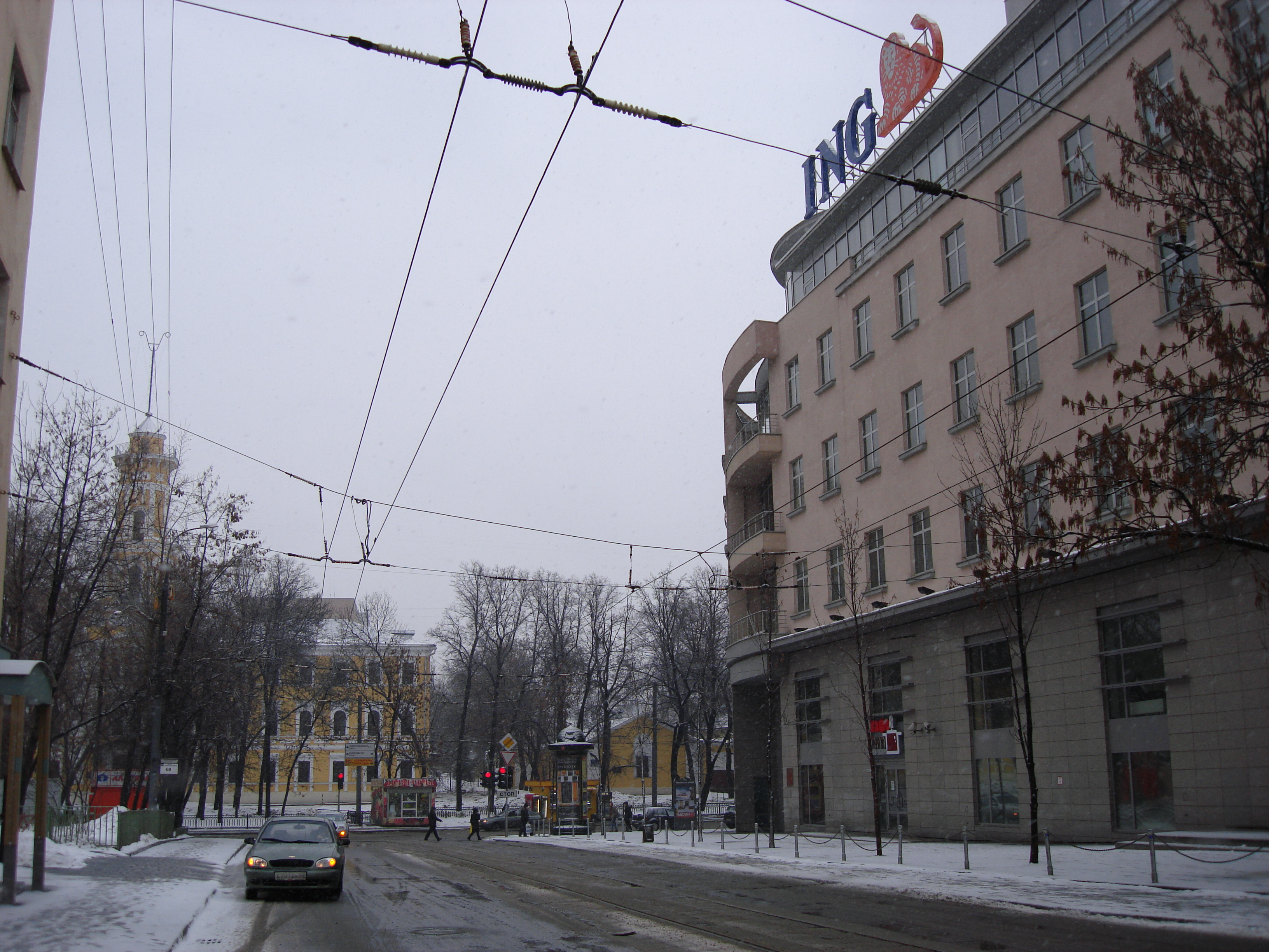 ING office building in Moscow, 36 Krasnoproletarskaya street (Краснопролетарская улица, д. 36). See on Yandex Maps